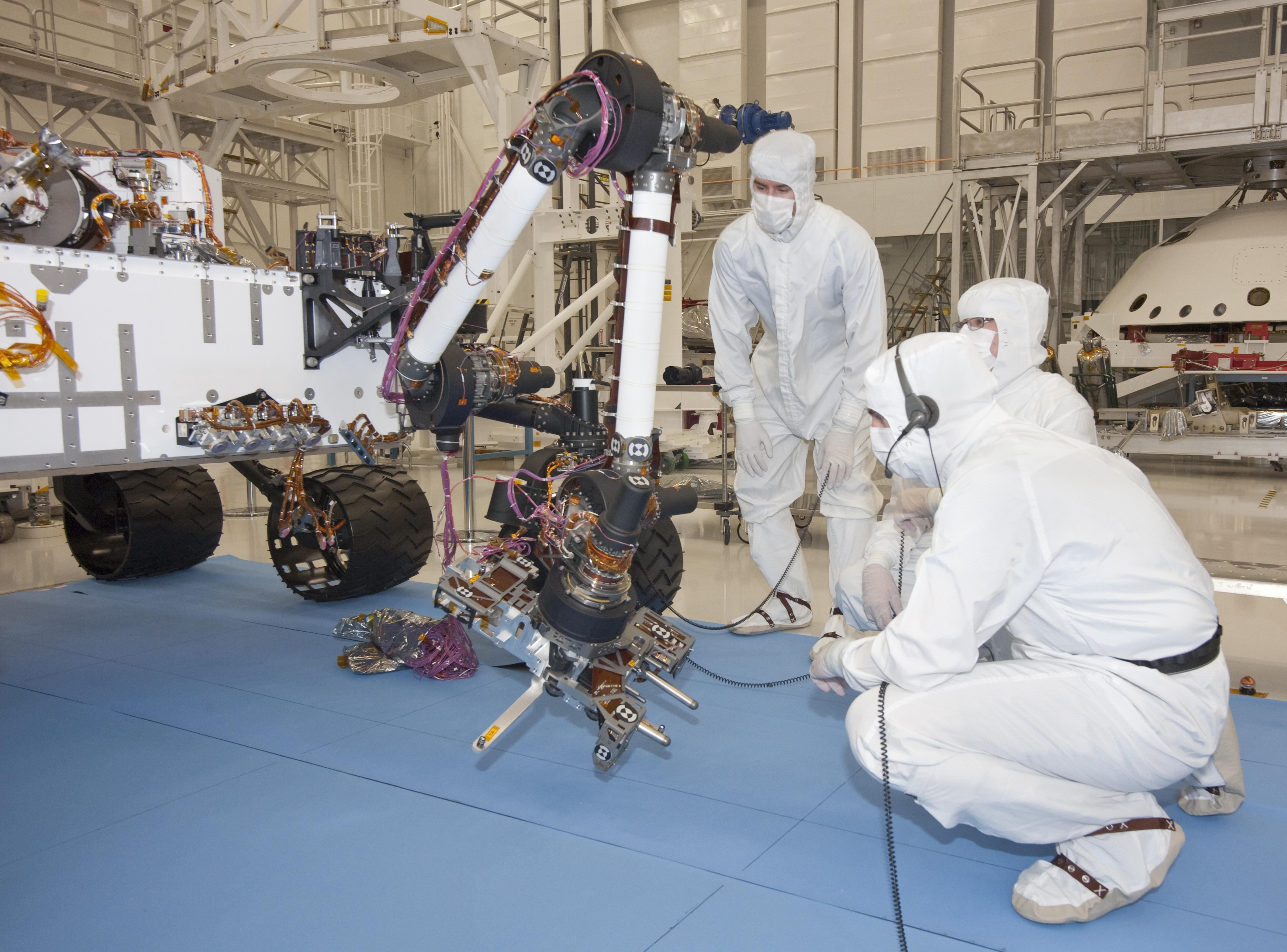 Test operators in a clean room at NASA's Jet Propulsion Laboratory, Pasadena, Calif., monitor some of the first motions by the robotic arm on the Mars rover Curiosity after installation in August 2010. This photo, taken Aug. 31, 2010, shows the arm in a partially extended position. The arm has a reach of about 2.3 meters (7.5 feet) from the front of the rover body.